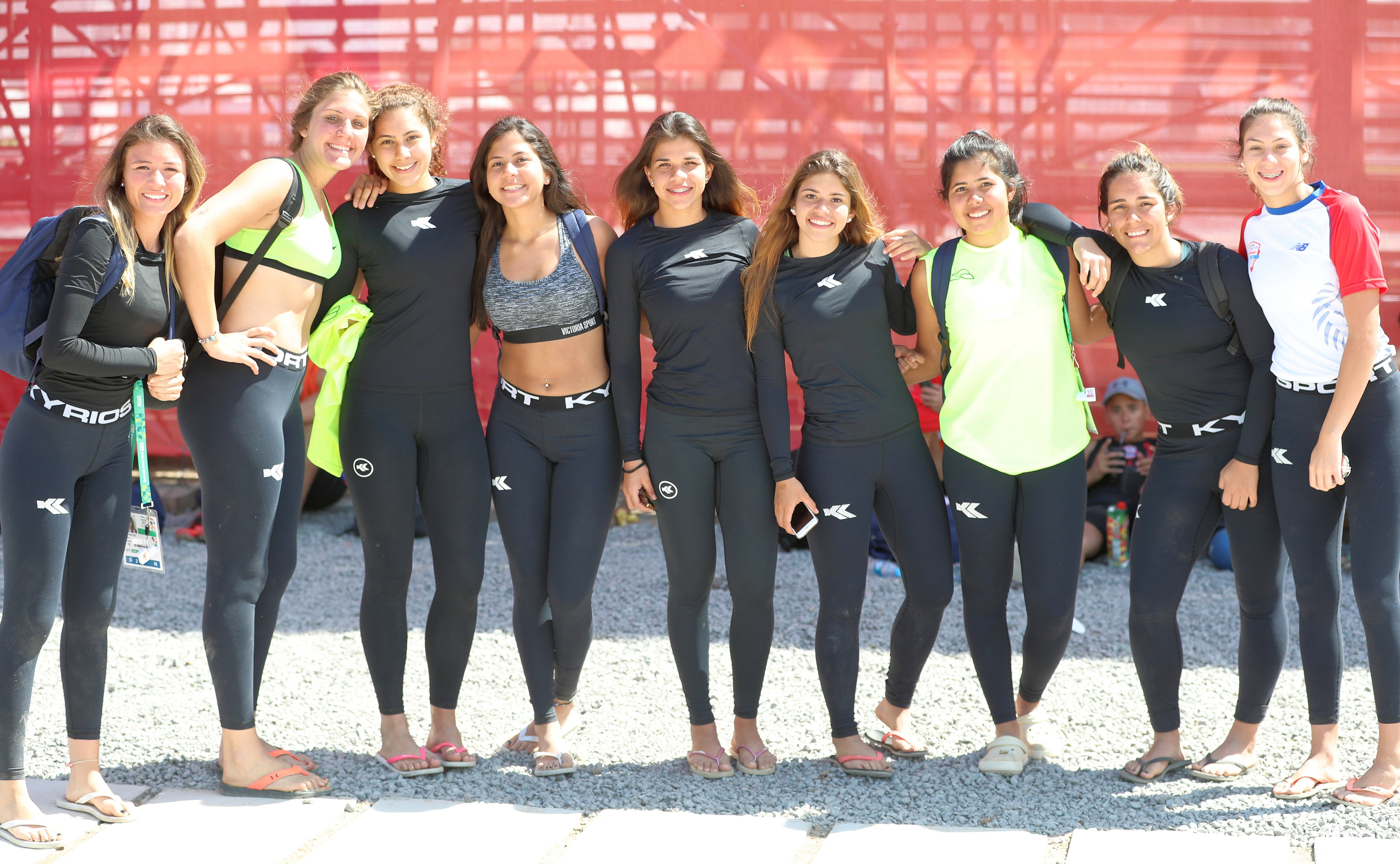 Beach handball training at the 2018 Summer Youth Olympics in Buenos Aires on 5 October 2018.